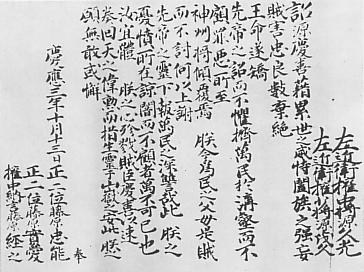 Secret imperial order of overthrow the Tokugawa Shogunate